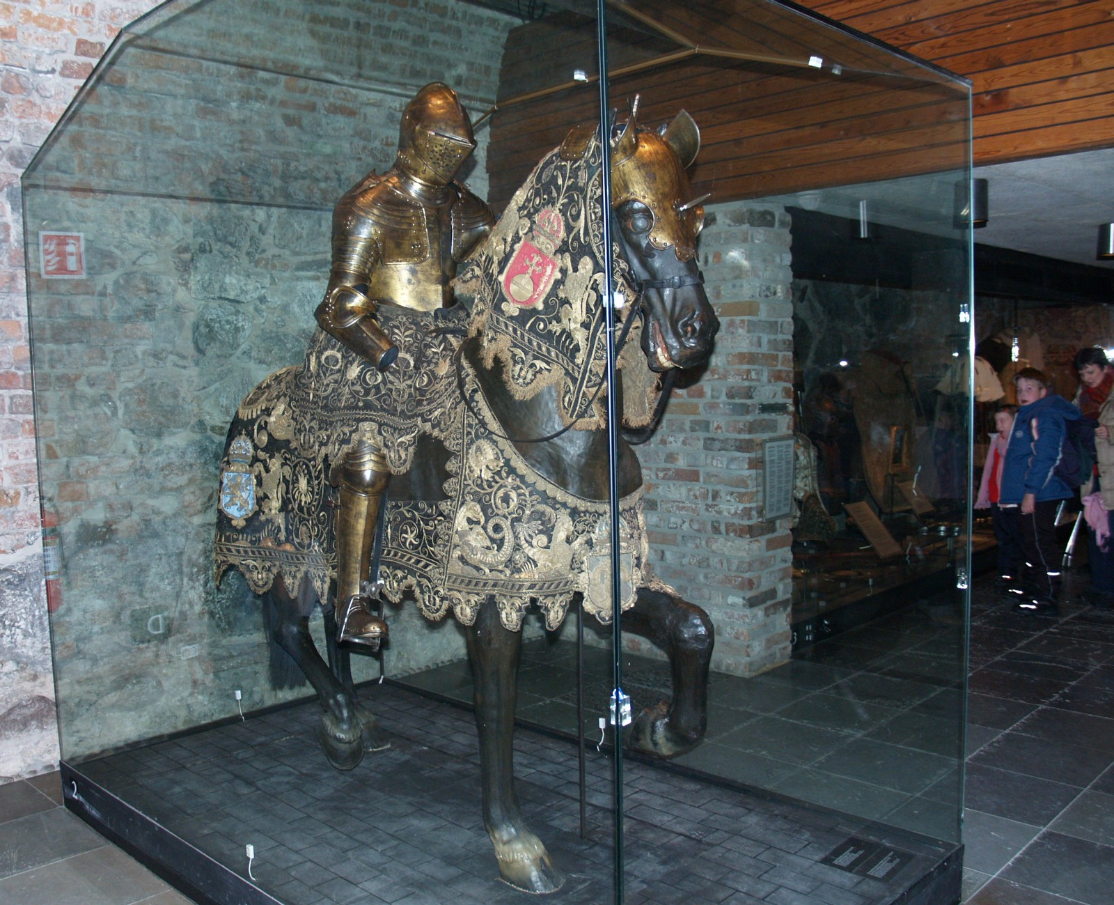 Armour from the "Livrustkammaren museum" at the Royal Castle, Stockholm, Sweden. Picture by myself, Ulf Larsen.